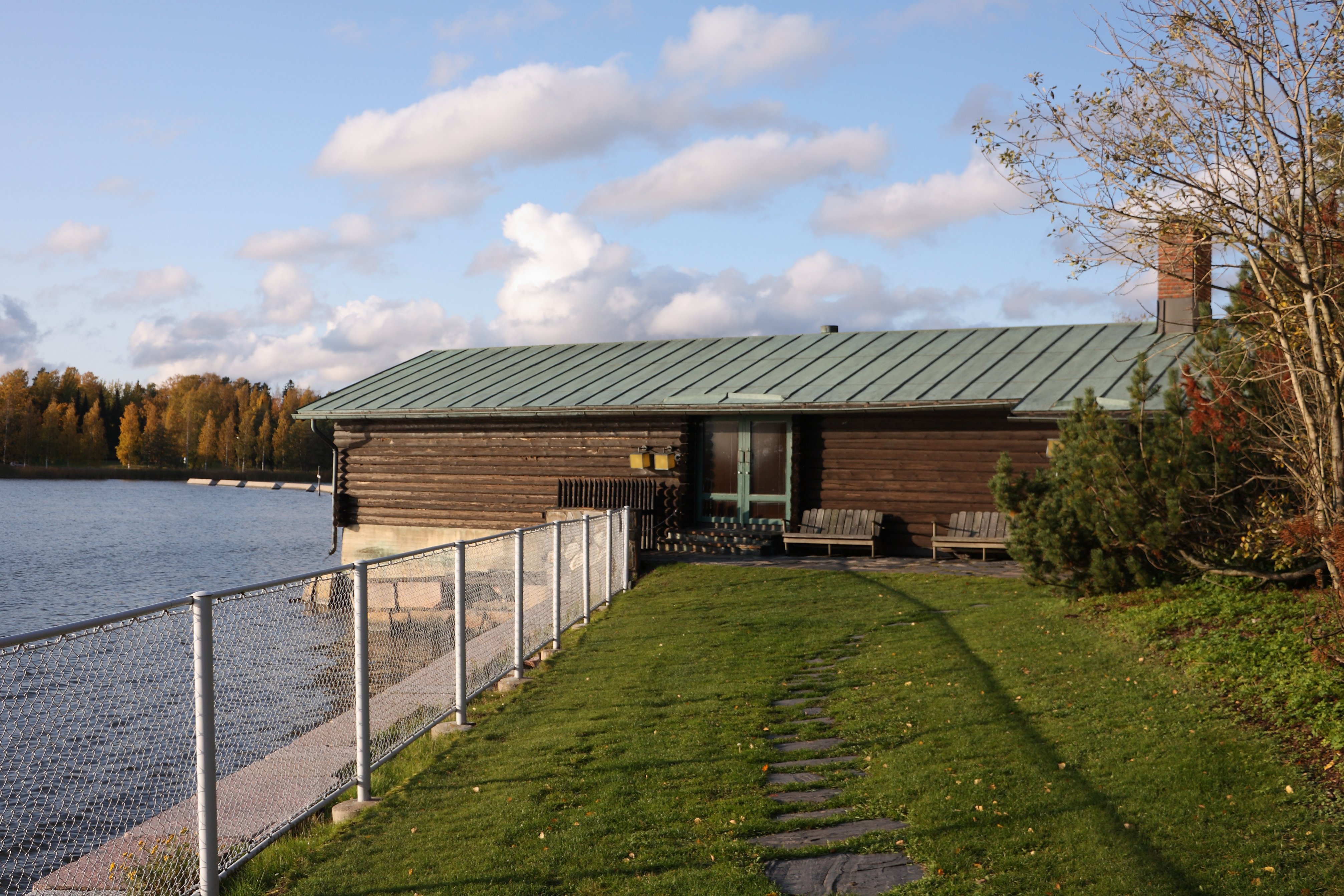 The sauna of Tamminiemi, where many statesmen have bathed being hosted by President Kekkonen.